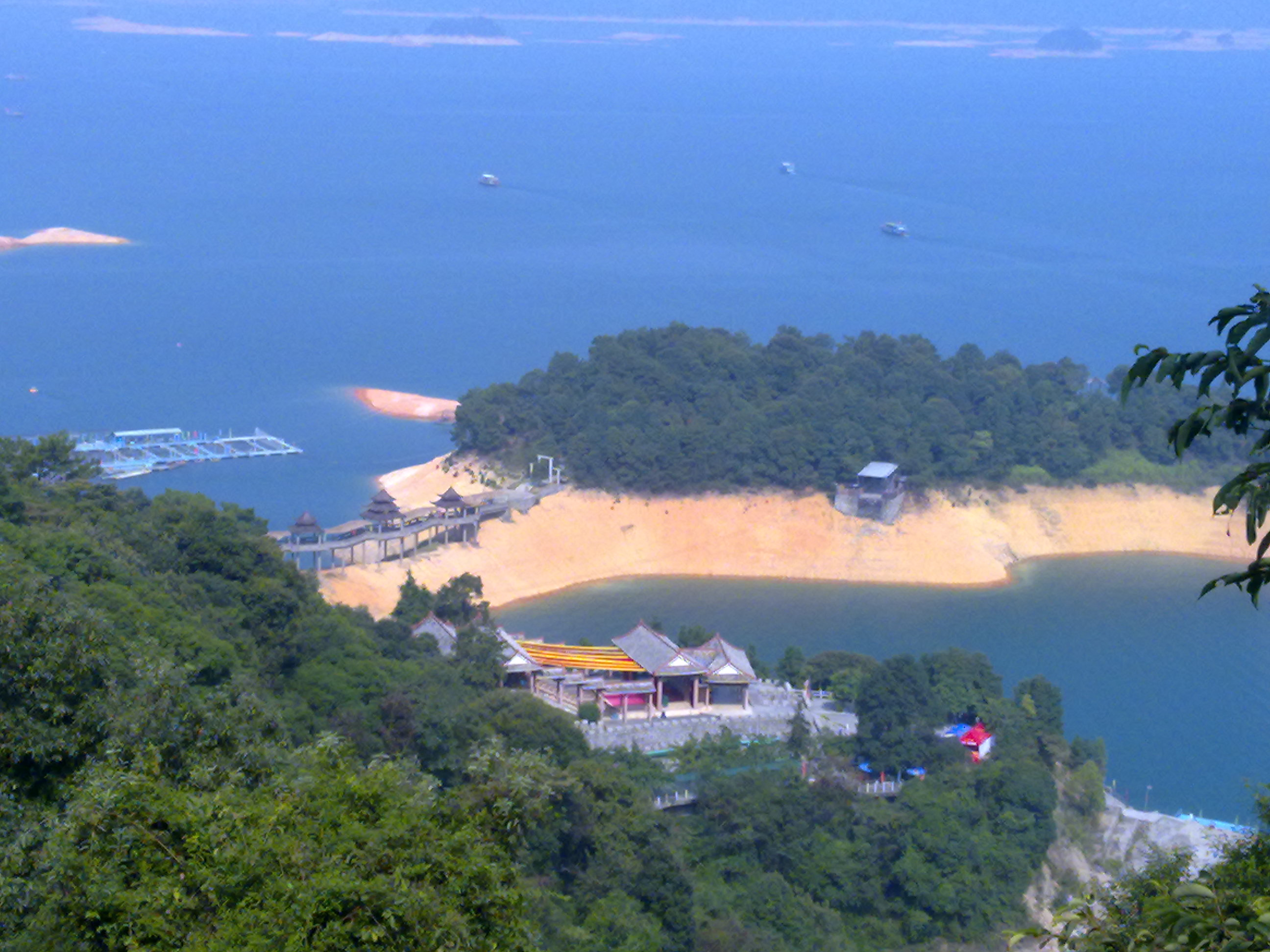 This is the sight of Wanlv Lake in the 3rd Oct,2009